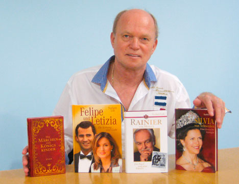 German Author Norbert Loh